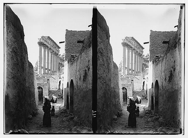 the village of Tadmur inside the temple of Bel